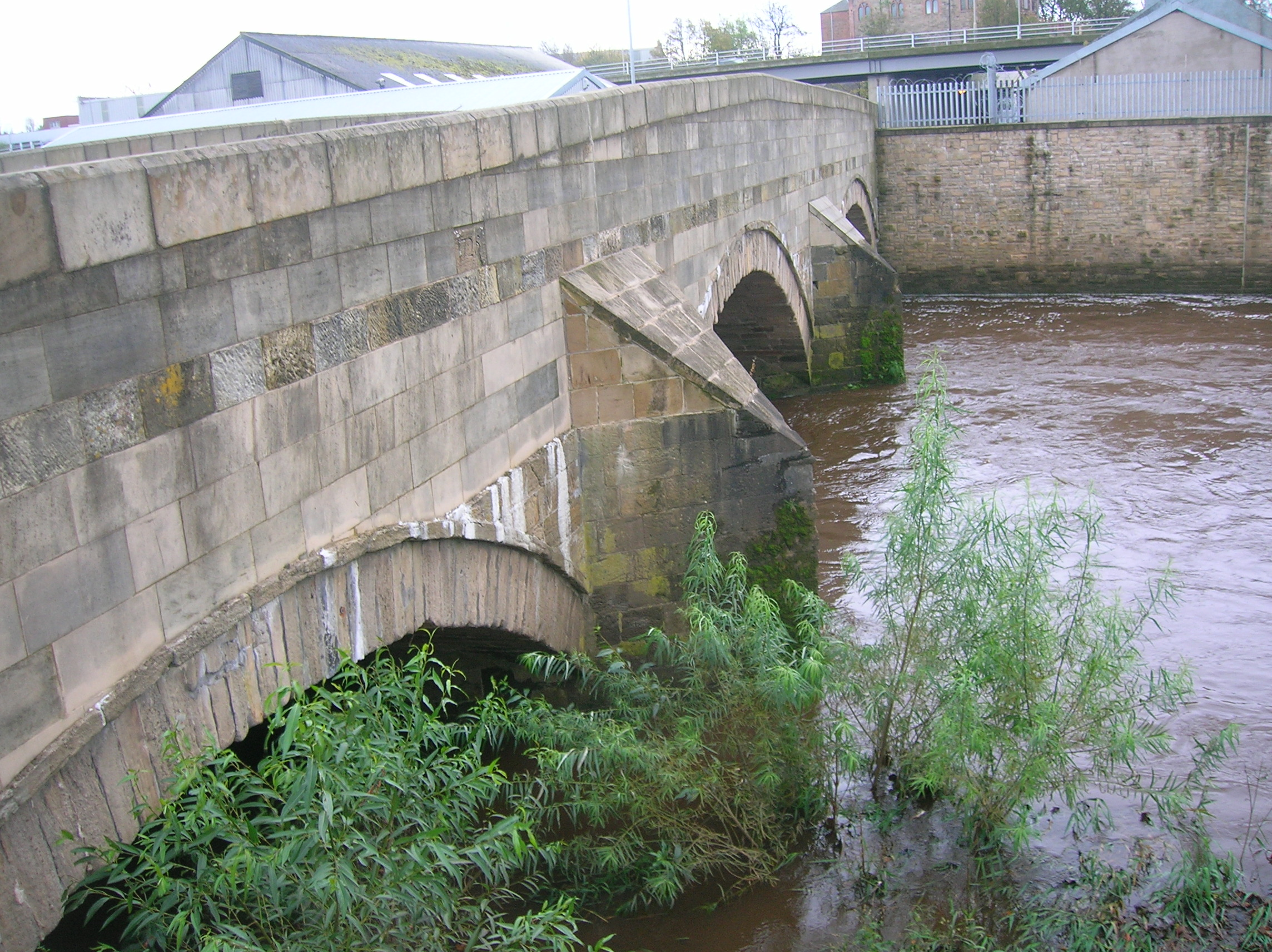 The 1726 old bridge over the Irvine at Riccarton, East Ayrshire, Scotland.